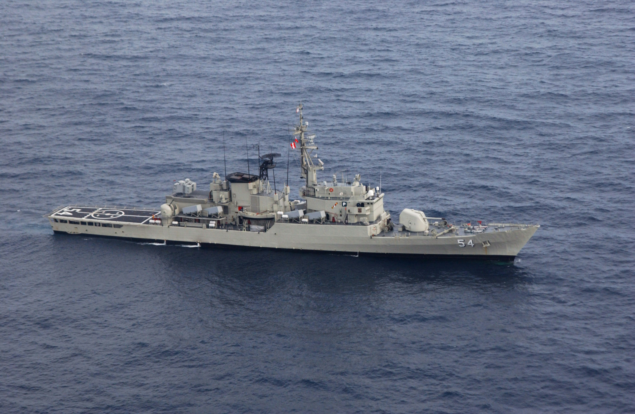 040812-N-7631T-009 Gulf of Panama (Aug. 12, 2004) – B.A.P. Mariategui (FM-54) conducts maritime patrols in the Gulf of Panama for suspected ships of interest in support of PANAMAX 2004. Naval forces from eight countries are participating in PANAMAX 2004, a naval exercise designed to build up a coalition response to security threats against the Panama Canal. PANAMAX is conducted under the direction of Commander Naval Forces Southern Command and involves the identification, monitoring and interdiction of vessels posing a simulated terrorist threat to the Canal. The multinational force includes surface and air assets from Argentina, Colombia, Chile, Dominican Republic, Honduras, Panama, Peru and the United States operating in the north and south approaches to the Canal. PANAMAX’s realistic scenario develops not only interoperability among naval forces but also joint and inter-agency interoperability as the naval forces work together with other services and agencies of Panama to ensure the safety of the Canal and to protect freedom of navigation.